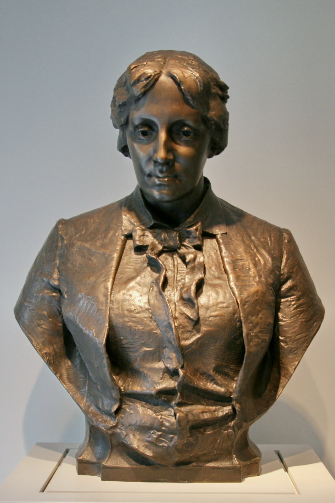 Louisa May Alcott, 1967 cast after 1891 original, Bronze Cast after Frank Edwin Elwell, Foundry Roman Bronze Works, Inc. Louisa May Alcott began to write professionally in her teens when her father, utopian theorist Bronson Alcott, left the family in dire financial straits. She published her first book, Flower Fables, in 1854. After serving as a nurse during the Civil War, she produced the memoir Hospital Sketches in 1863. Asked by her publisher to write a book for girls, Alcott drew upon her own family experiences to write Little Women (1868). This heartwarming novel, chronicling the lives of the four March sisters-Meg, Jo, Beth, and Amy-was a success at its publication and remains an American literary classic.